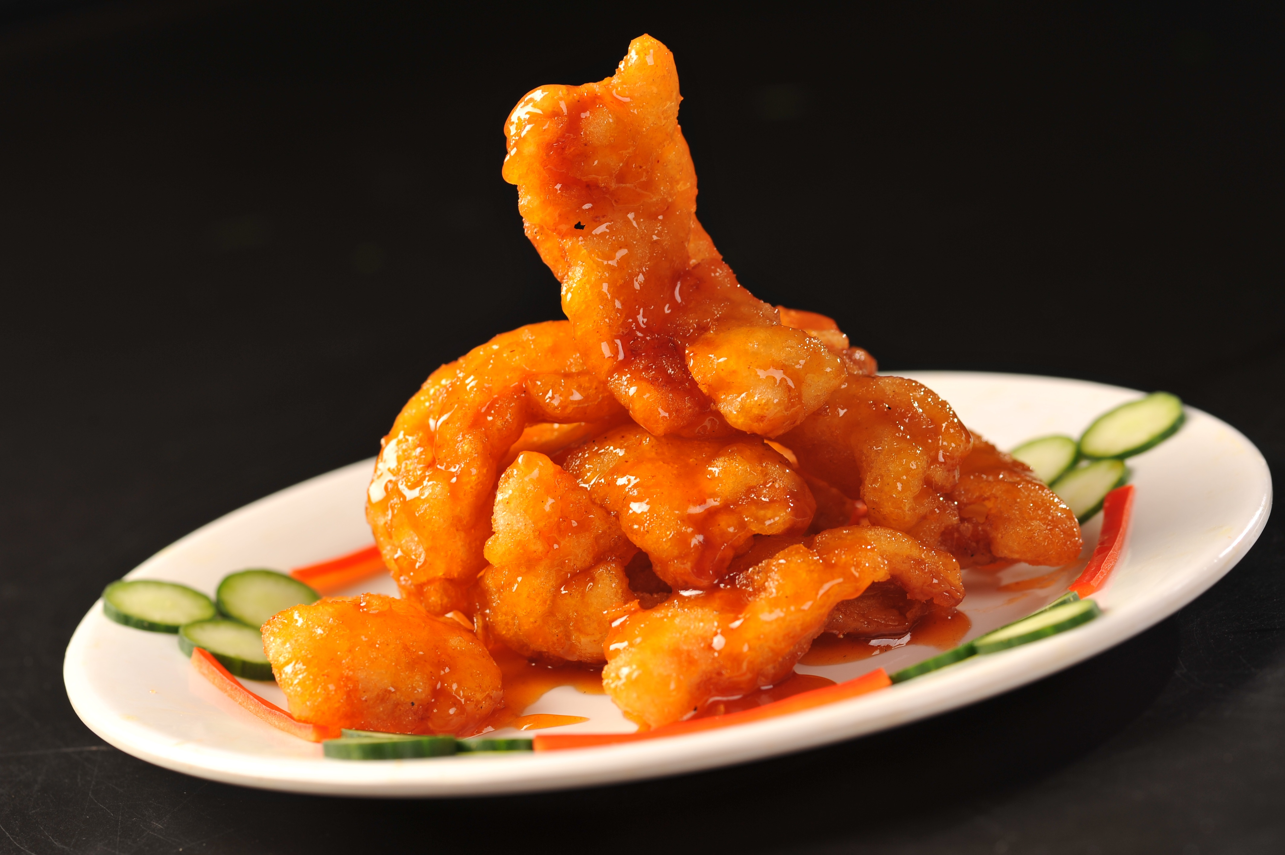 Guōbāoròu (sweet and sour pork)